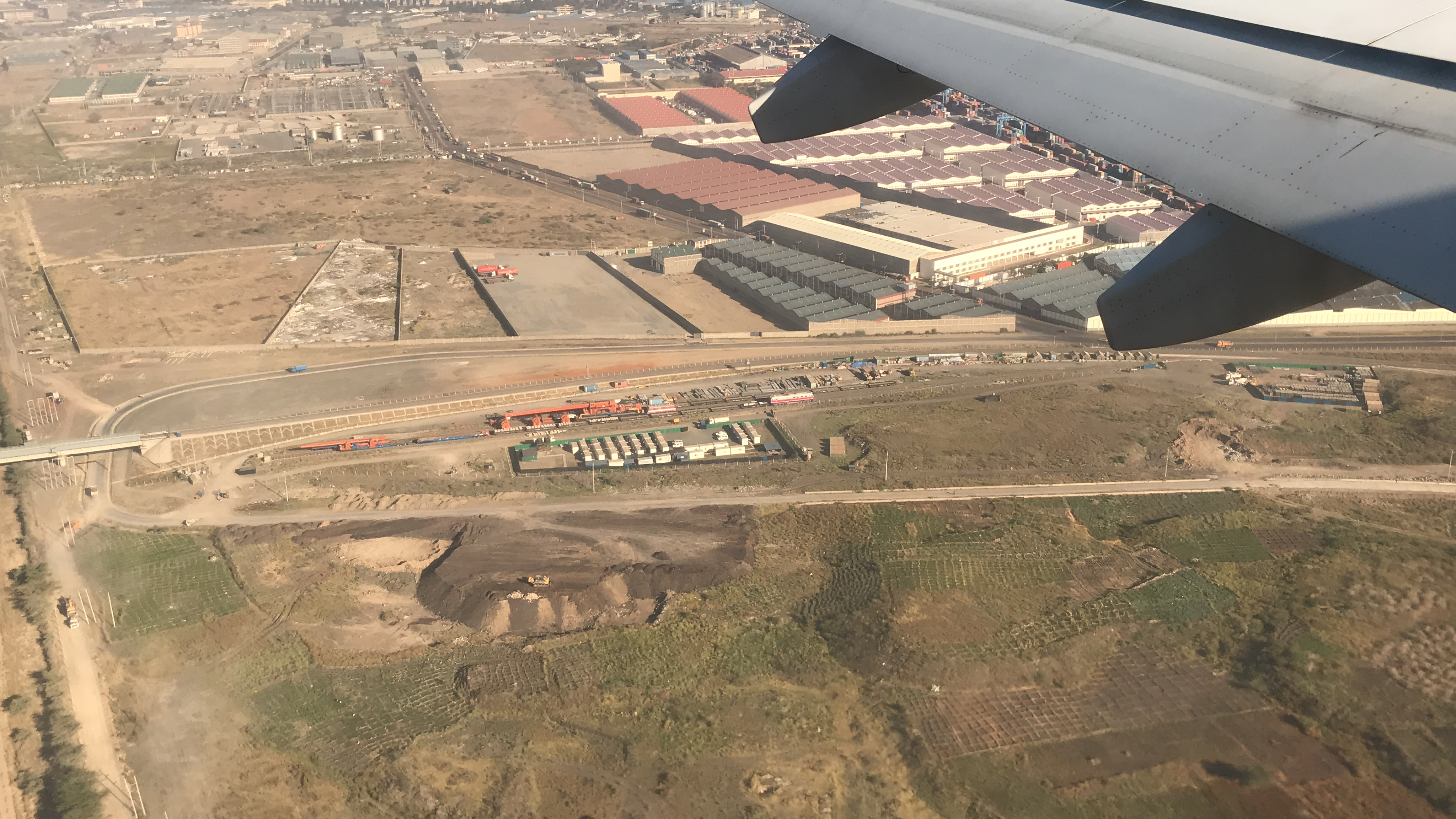 This is an image with the theme "Africa on the Move or Transport" from: Kenya